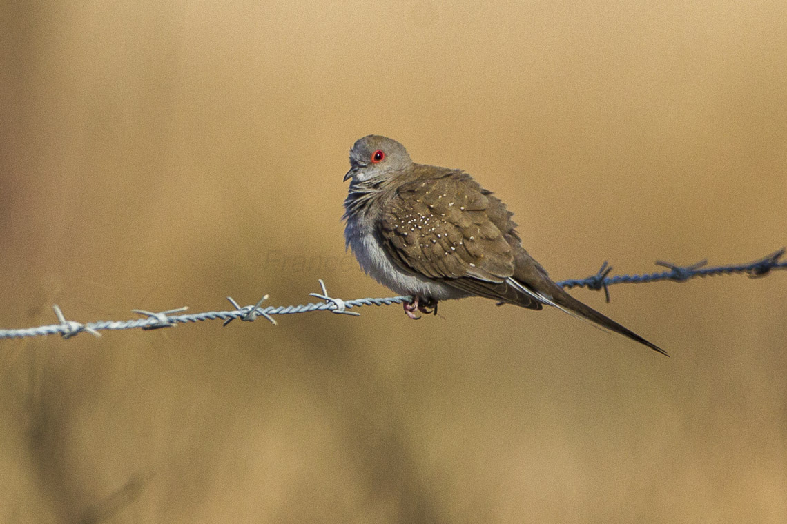 Diamond Dove - Kingfisher Park - Queensland_S4E0263